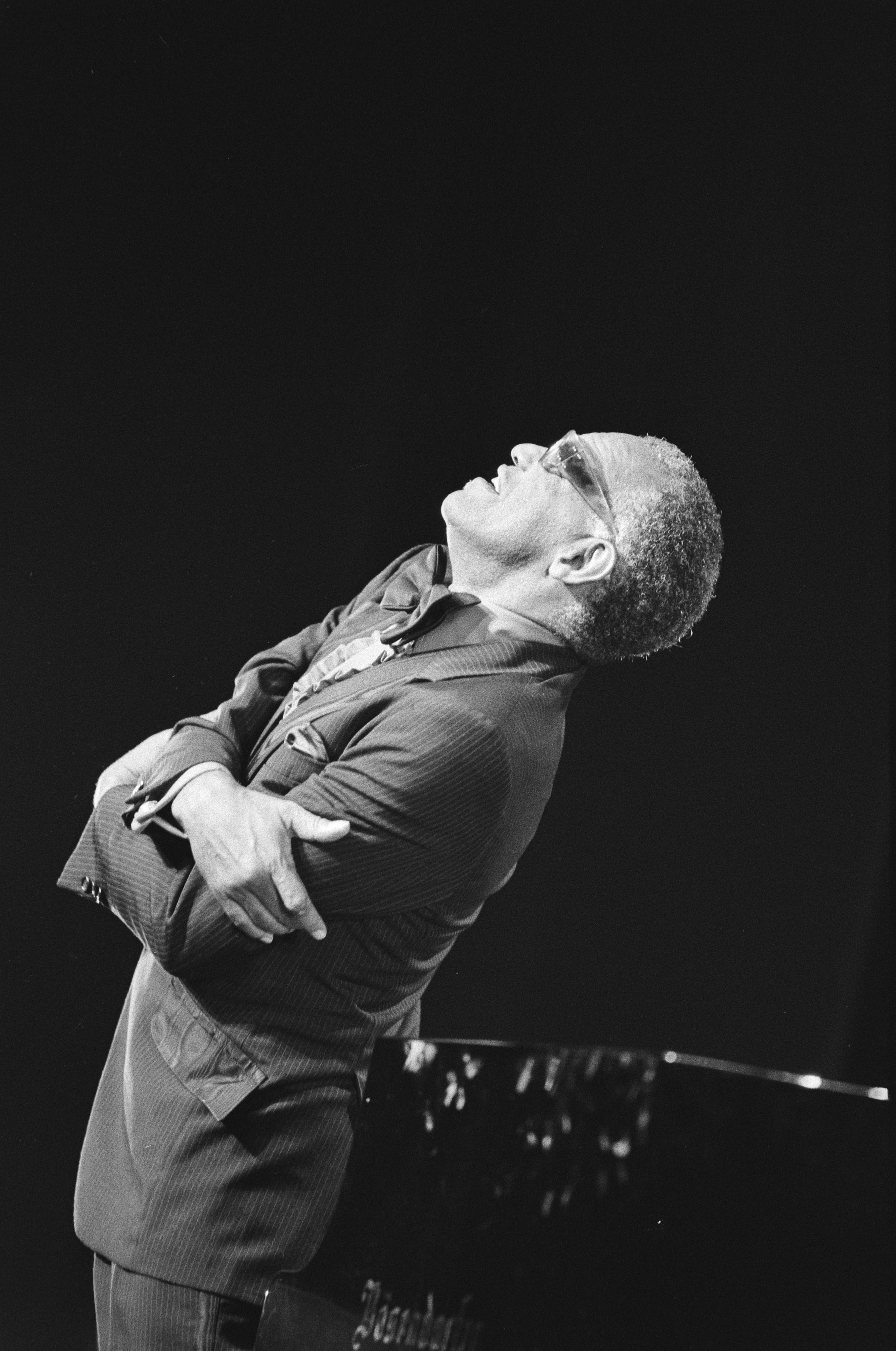 Ray Charles, North Sea Jazz Festival The Hague (the Netherlands), 9 July 1983